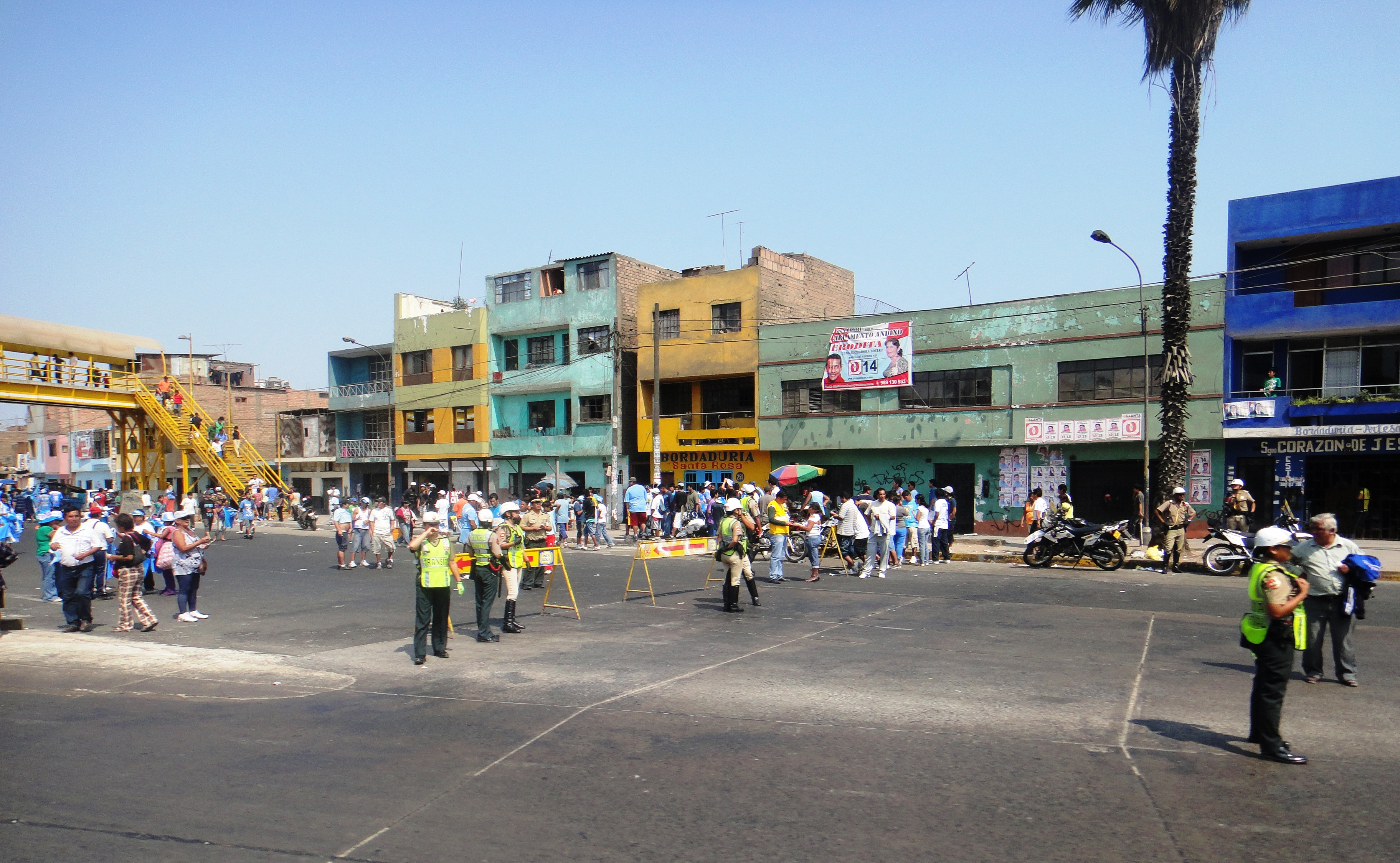 Part of Pan-American Highway called "Panamericana Norte" in San Martín de Porres District, Lima-Peru.